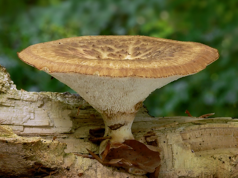 Tuberous Polypore (Polyporus tuberaster)